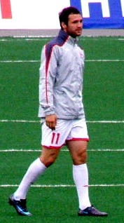 Marat Bikmaev warming up for PFC Spartak Nalchik